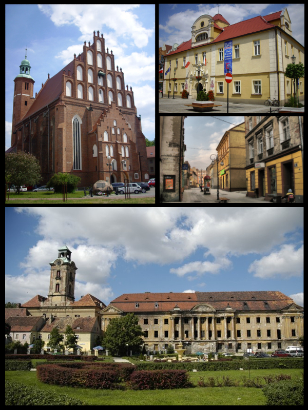 Żary